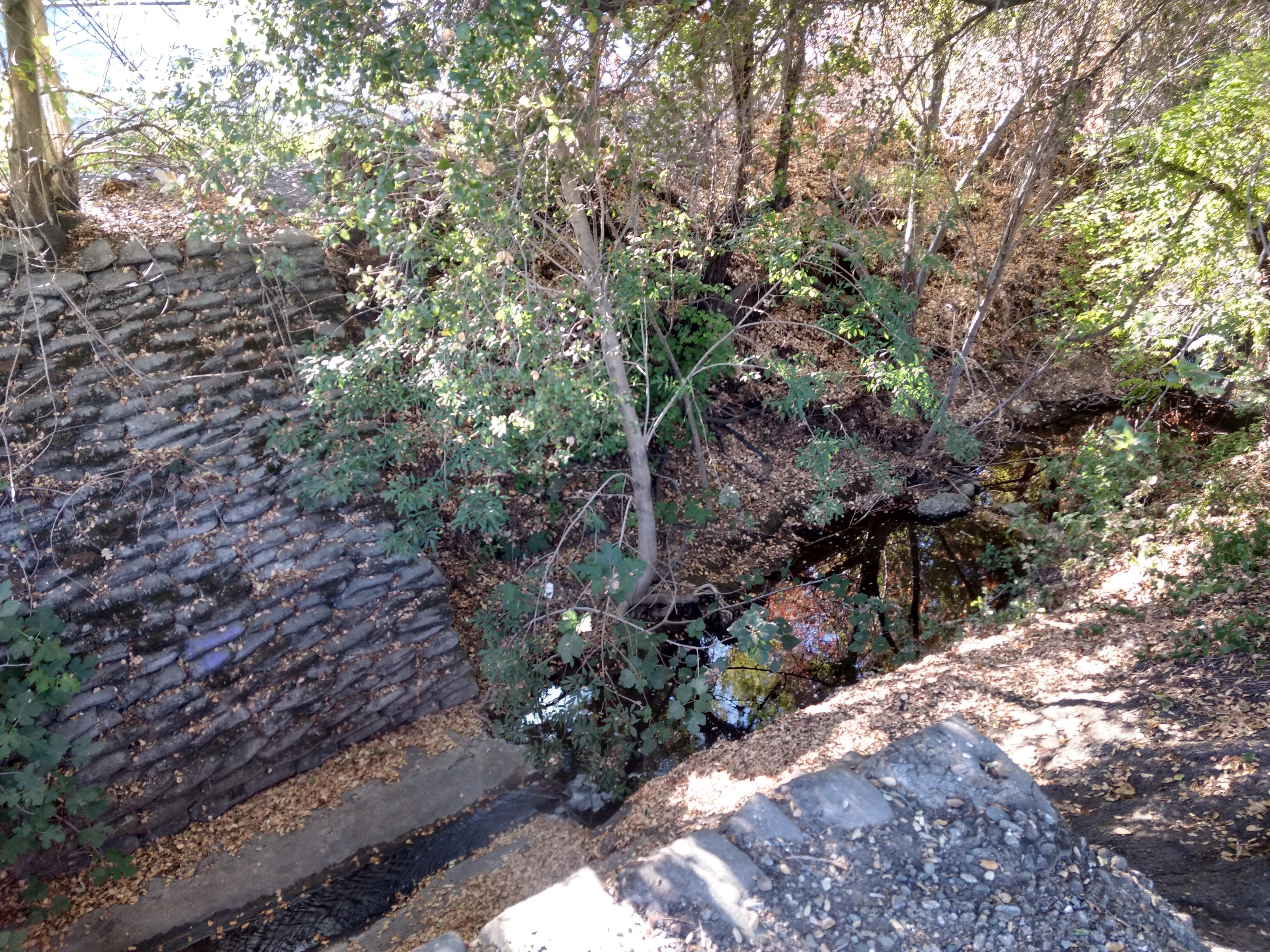 Hale Creek, as seen from Magdelena Ave near Foothill Expressway in Los Altos California.